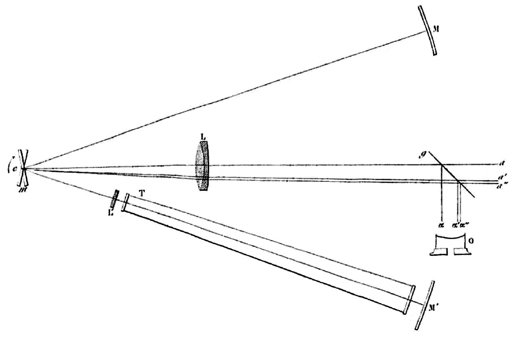 Foucault's determination of the relative speed of light in air vs water. Light from a passing through a slit (not shown) is reflected by mirror m (rotating clockwise around c) towards the concave spherical mirrors M and M'. Lens L forms images of the slit on the surfaces of the two concave mirrors. The light path from m to M is entirely through air, while the light path from m to M' is mostly through a water-filled tube T. Lens L' compensates for the effects of the water on the focus. The light reflected back from mirrors M and M' is diverted by a beam splitter towards an eyepiece O. If mirror m is stationary, both images of the slit reflected by M and M' reform at position α. If mirror m is rapidly rotating, light reflected from M forms an image of the slit at α' while light reflected from M' forms an image of the slit at α". The experiment demonstrated that light travels more slowly through water than air. Thus, it disproved Newton's hypothesis that Snell's Law results from an increase in the speed of ballistic light particles as they crossed an air/water interface, and gave what was considered to be definitive support of the wave theory of light.